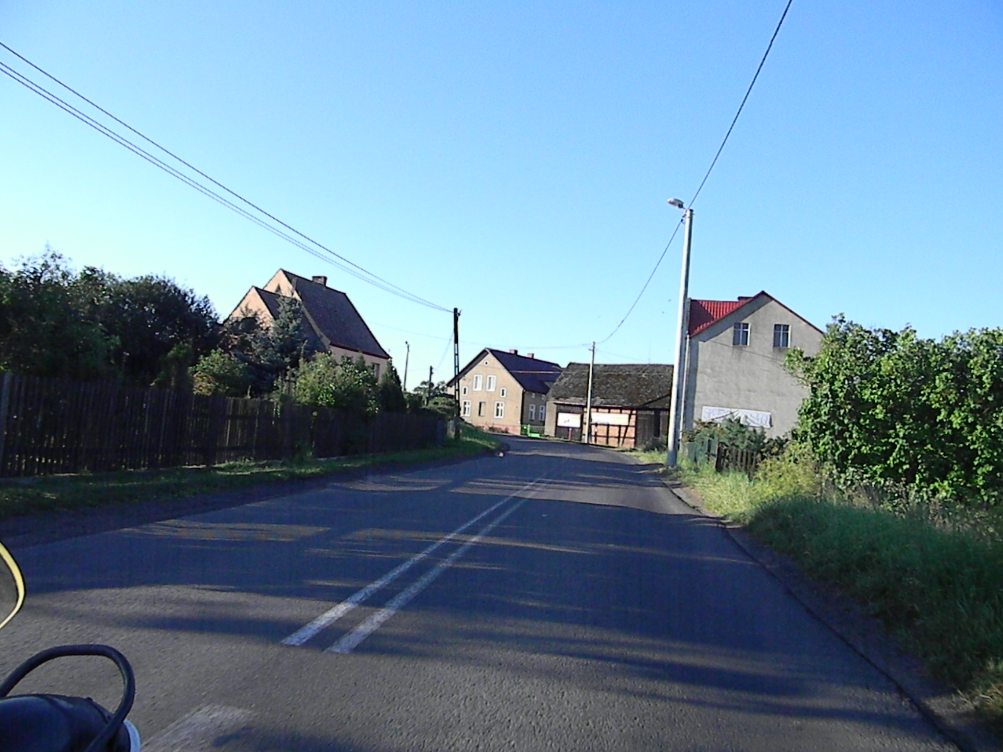 Prawikow village